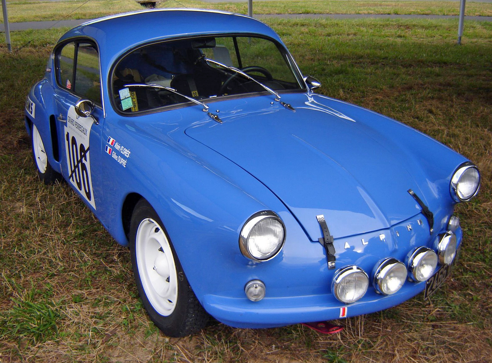 A 1957 Alpine A106 Coach "Mille Miles", chassis #131, at the Autodrome de Linas-Montlhéry, 2009.